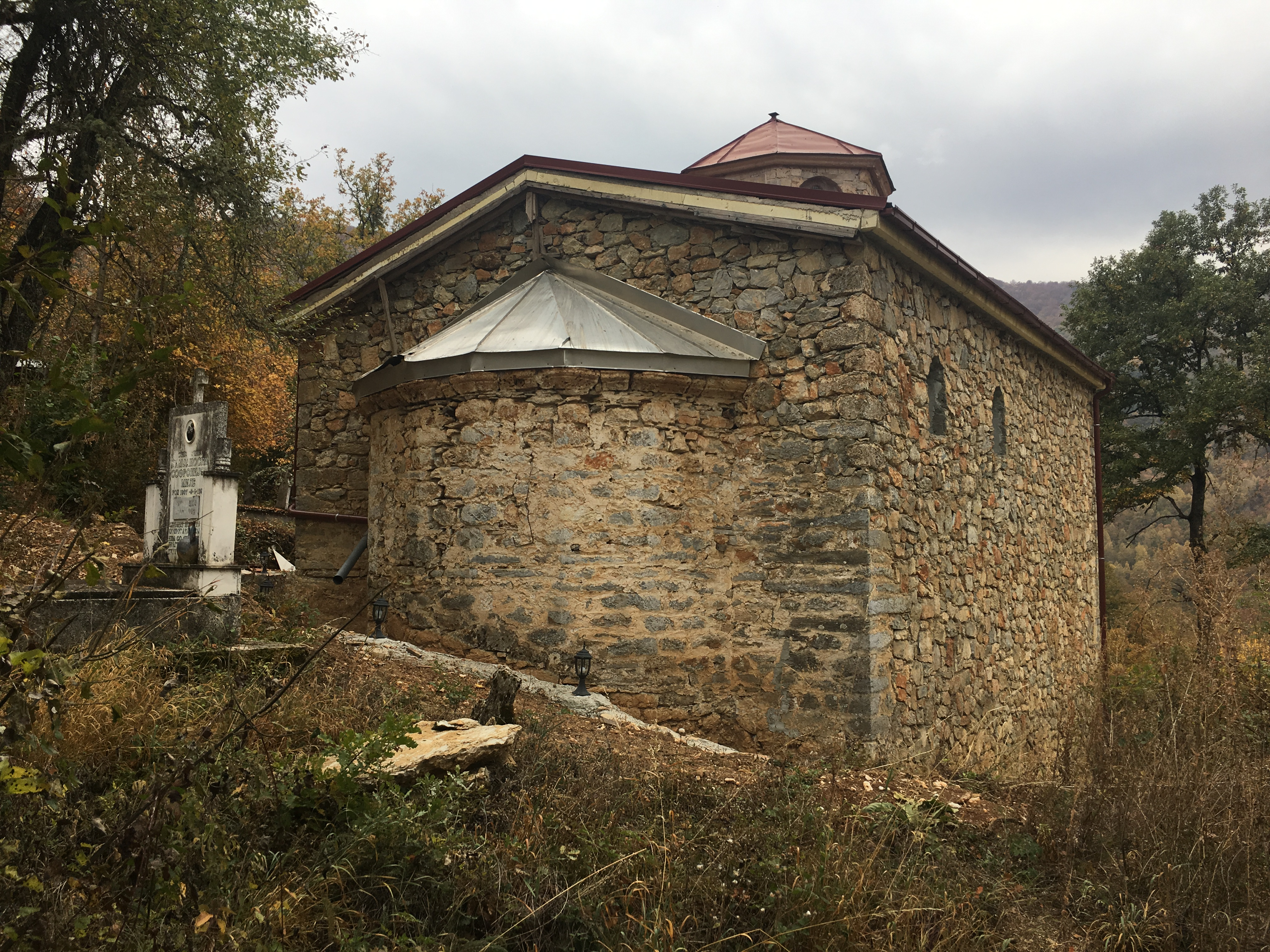 Wikiexpedition to Kopačka